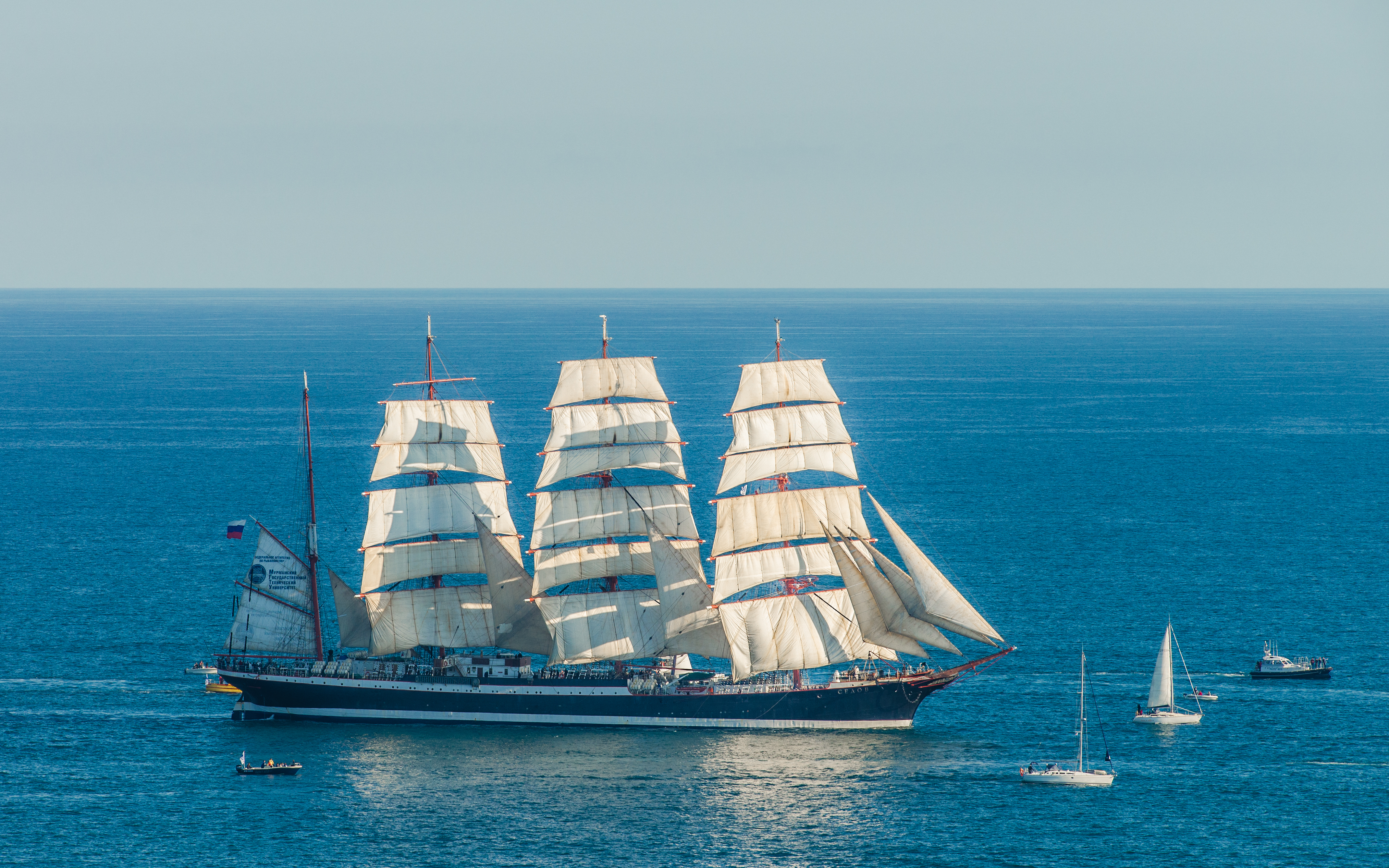 The Sedov (Russian four-masted barque, 1921) near the harbour of Sète, Hérault, France.